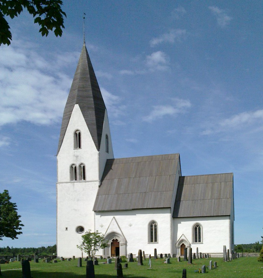 Church of Tofta (Gotland) viewed from the South